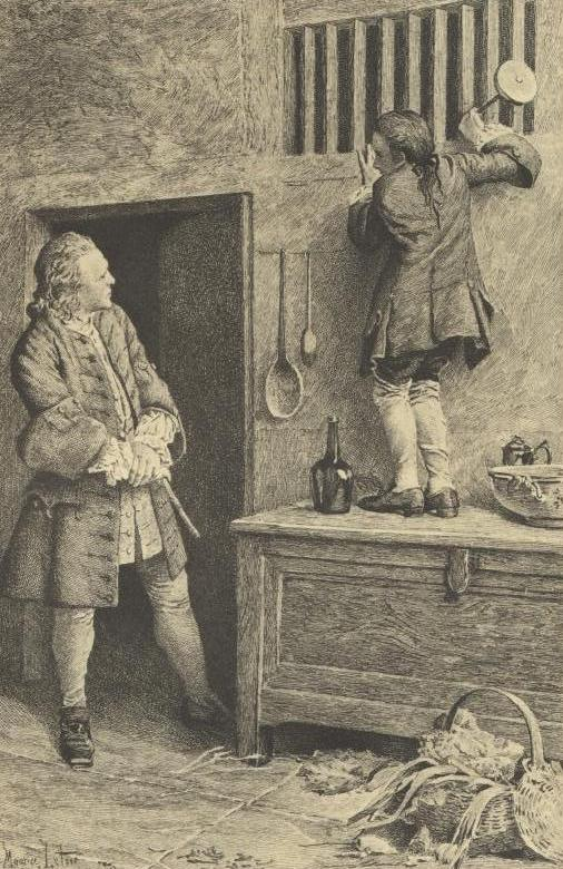 The Stealing of The Apple; Illustration; The Confessions of J.J. Rousseau; Aldus